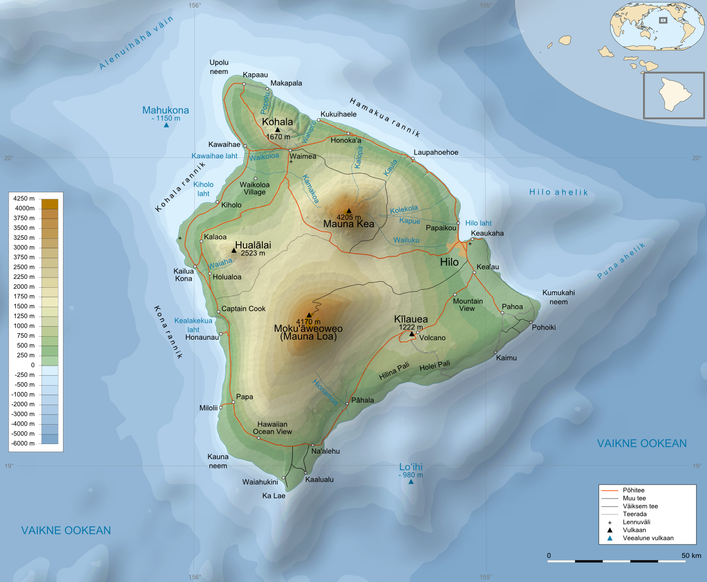 Map in Estonian of the island of Hawaii.